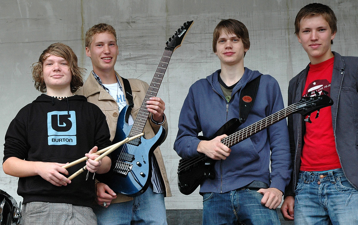 Ludvik and the Beatowens, 2007